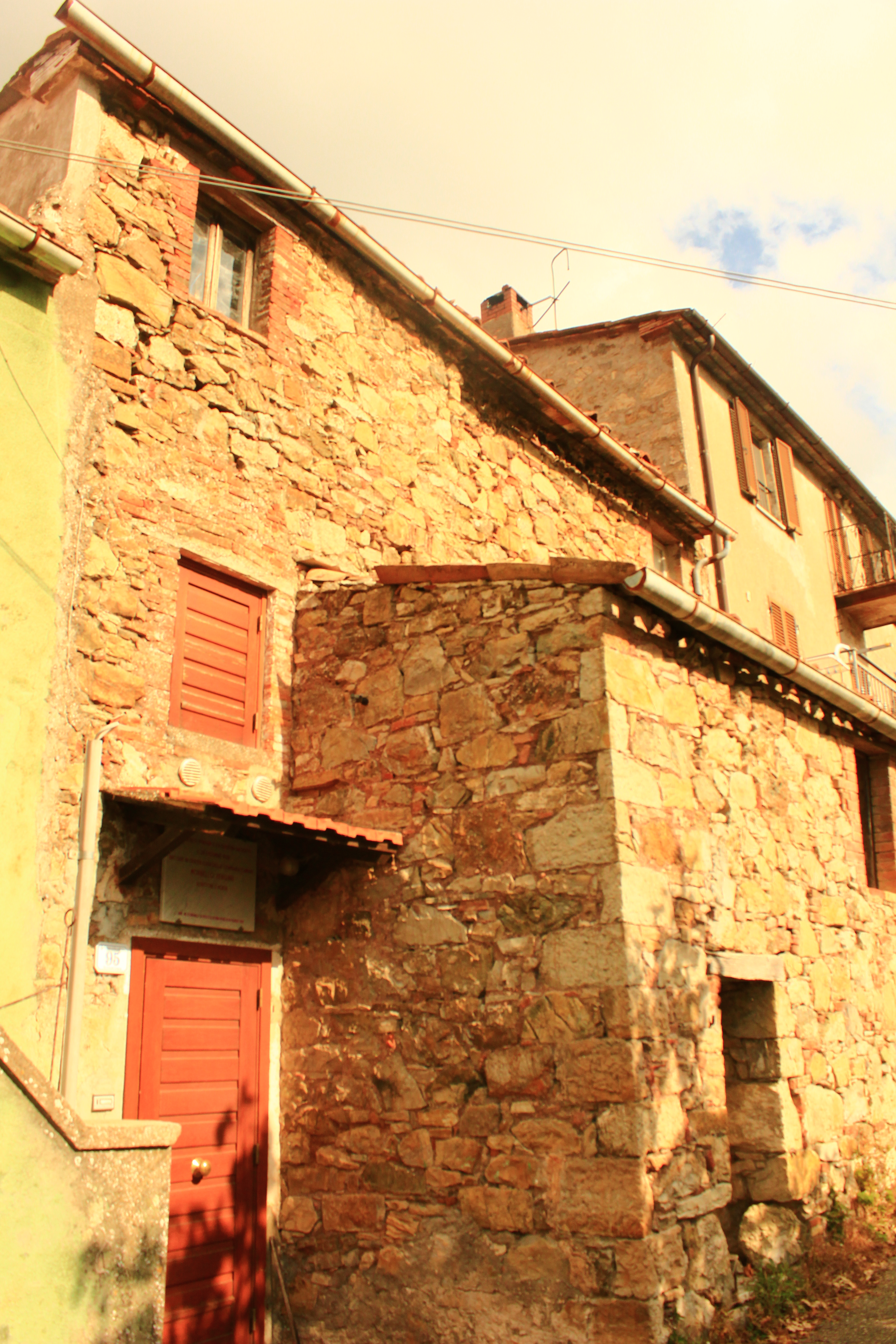 Poet Morbello Vergari's birthplace in Santa Caterina, Grosseto.